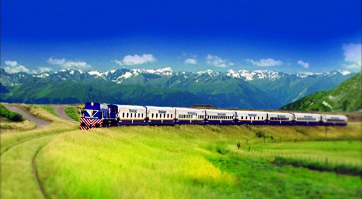 Patagonian train